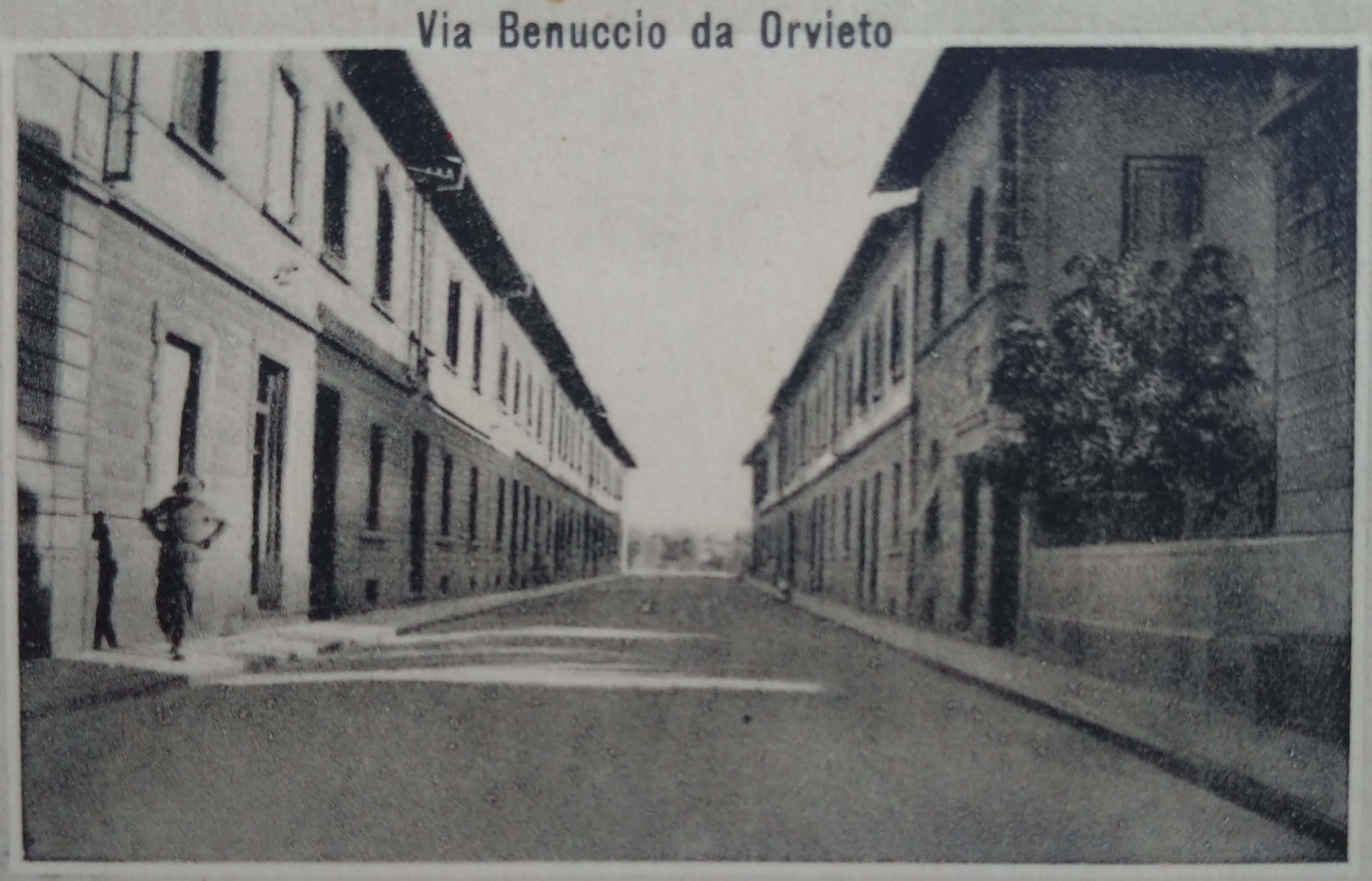 Via Benuccio da Orvieto - vintage postcard (detail)